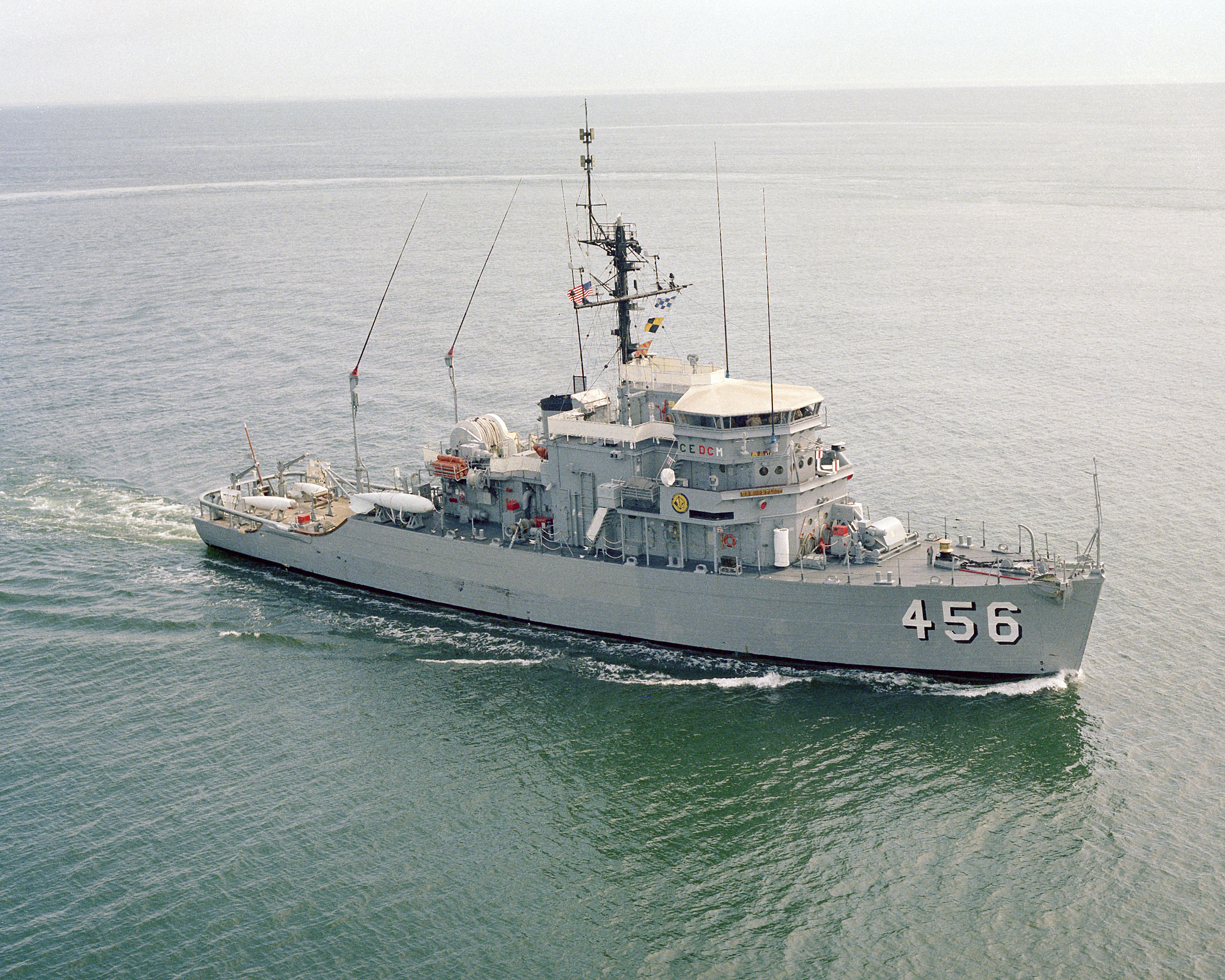 A starboard bow view of the ocean minesweeper USS INFLICT (MSO 456) underway.